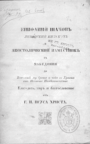 Epiphanius Shanov's book